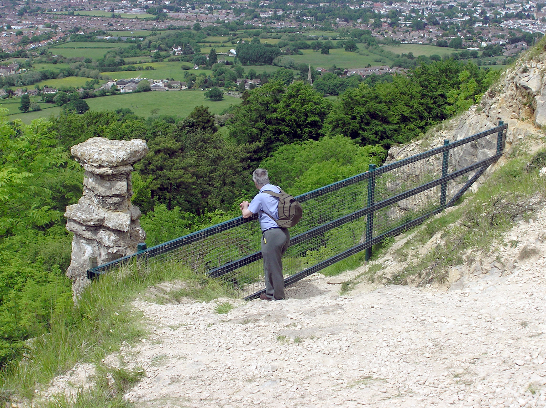 The Devils Chimney viewpoint on Leckhampton Hill, near Cheltenham, Gloucestershire, England. Photographed by Adrian Pingstone (my wife actually because I'm in the picture) on 4th June 2006 and placed in the public domain.